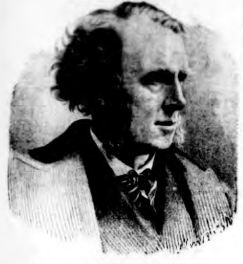 Photograph of actor and elocutionist George Vandenhoff taken in 1873, which appeared in The New York Mirror on August 14, 1886, in a late obituary following his death in England in June 1885.